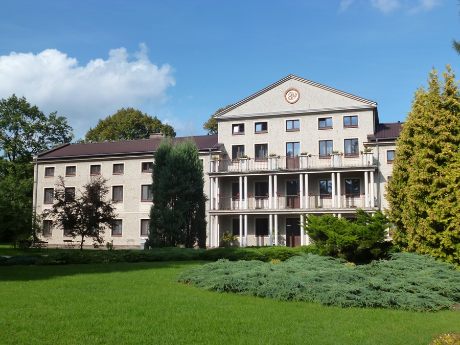 Pilgrims house St. Angela in the Sanctuary of St. Ursula Ledóchowska in Pniewy/ Poland